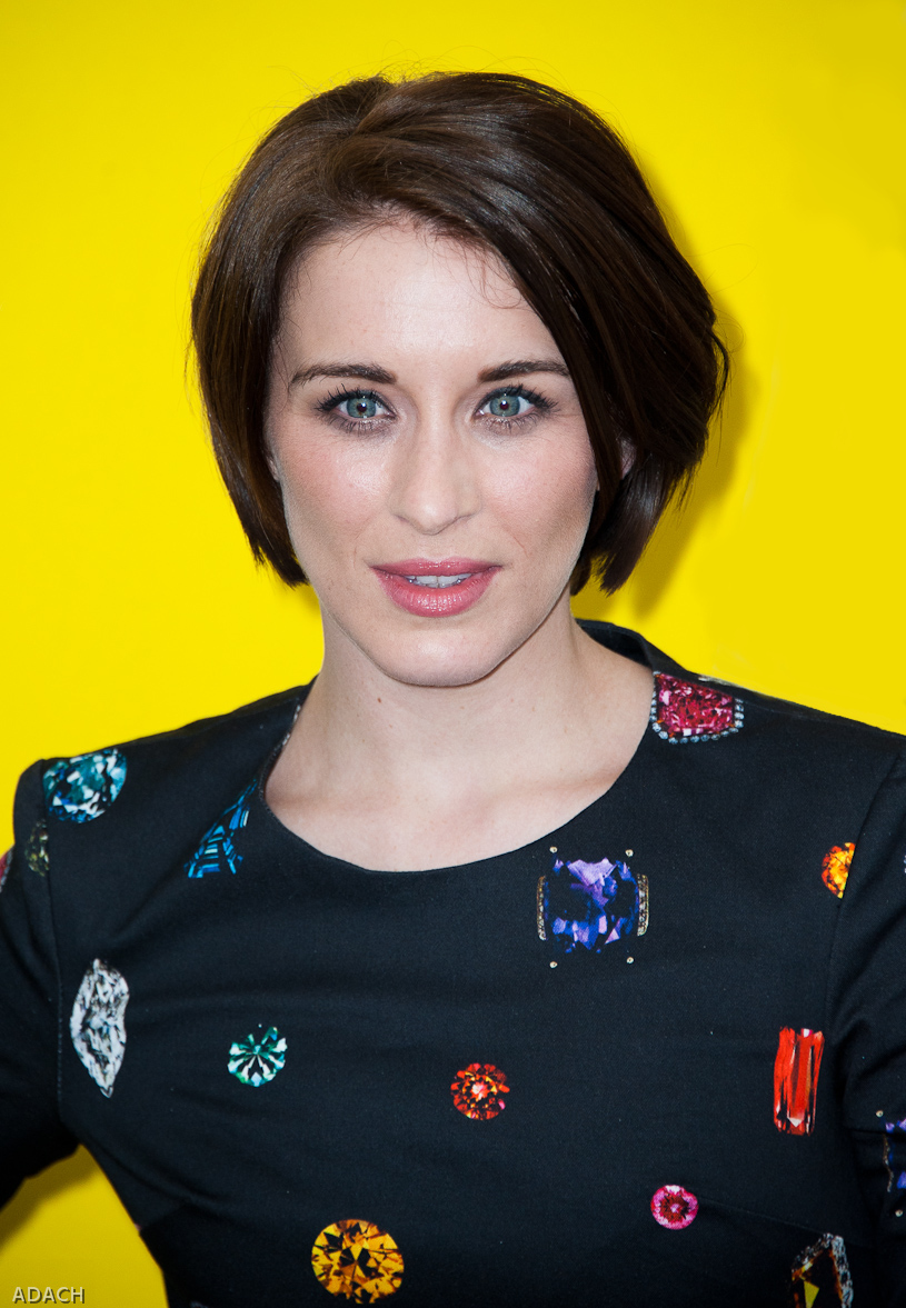 Vicky McClure at the London premiere of Svengali, 12 March 2014